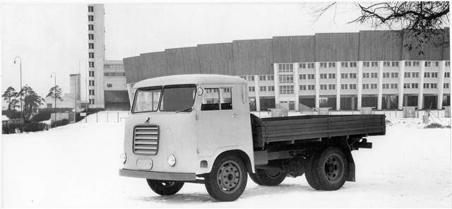 Sisu KB-24 "Nalle-Sisu" prototype from 1954.